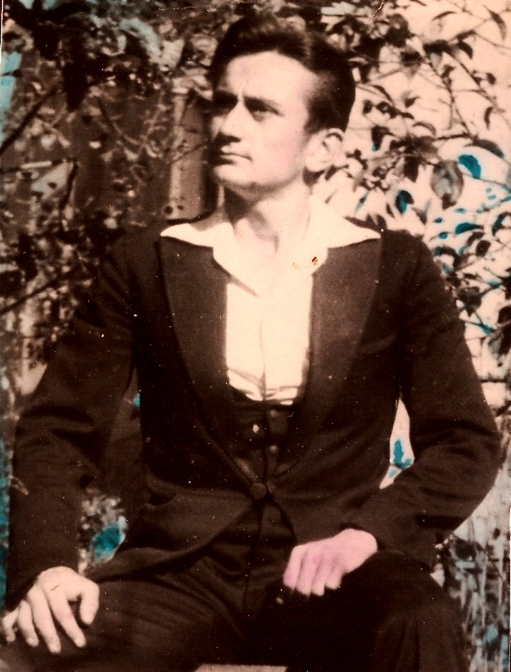 Mirko Vidovic, during the 60s